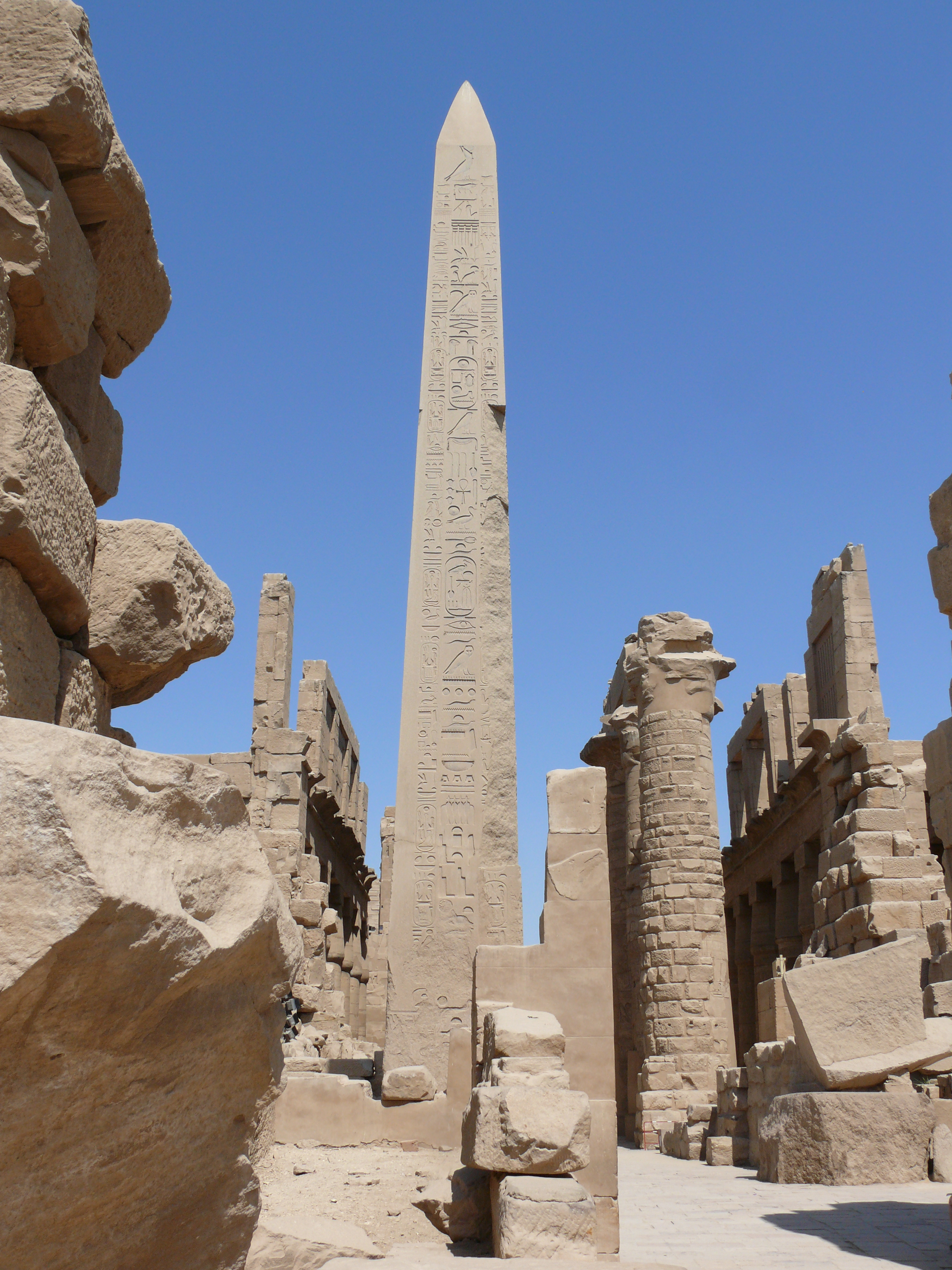 Obelisk of Thutmosis I in Karnak temple complex.